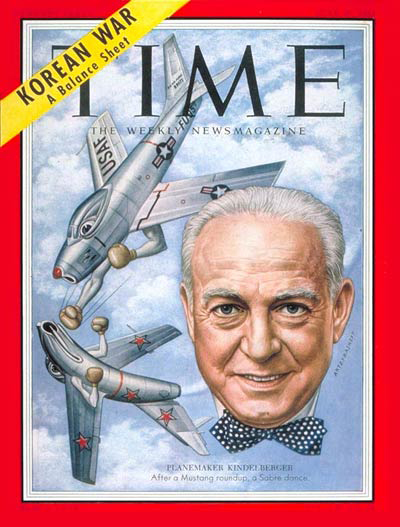 Time magazine, Volume 61 Issue 26. Front cover is an illustration of James H. Kindelberger.